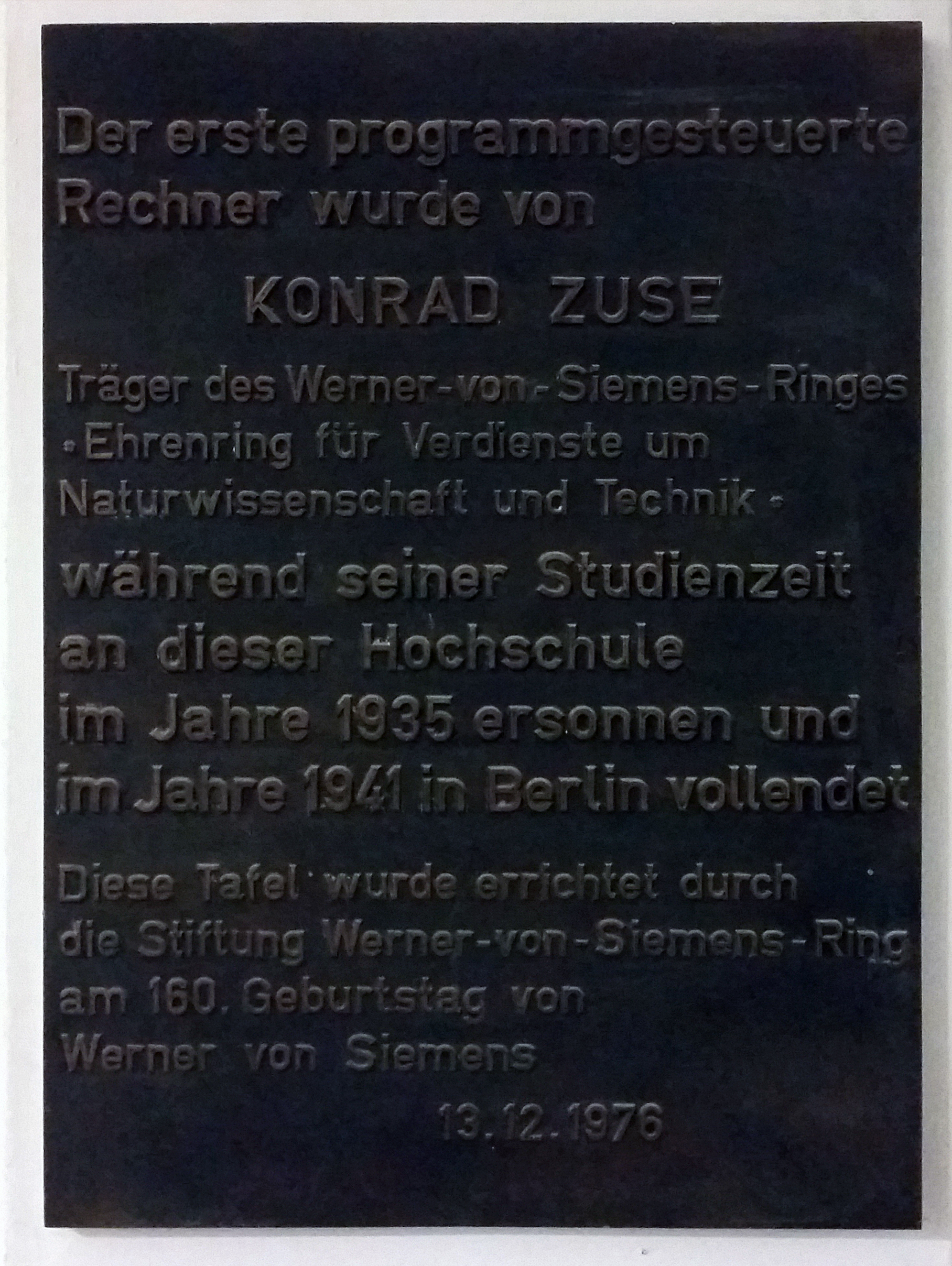 Memorial plaque, Konrad Zuse, Straße des 17. Juni 135, Berlin-Charlottenburg, Deutschland